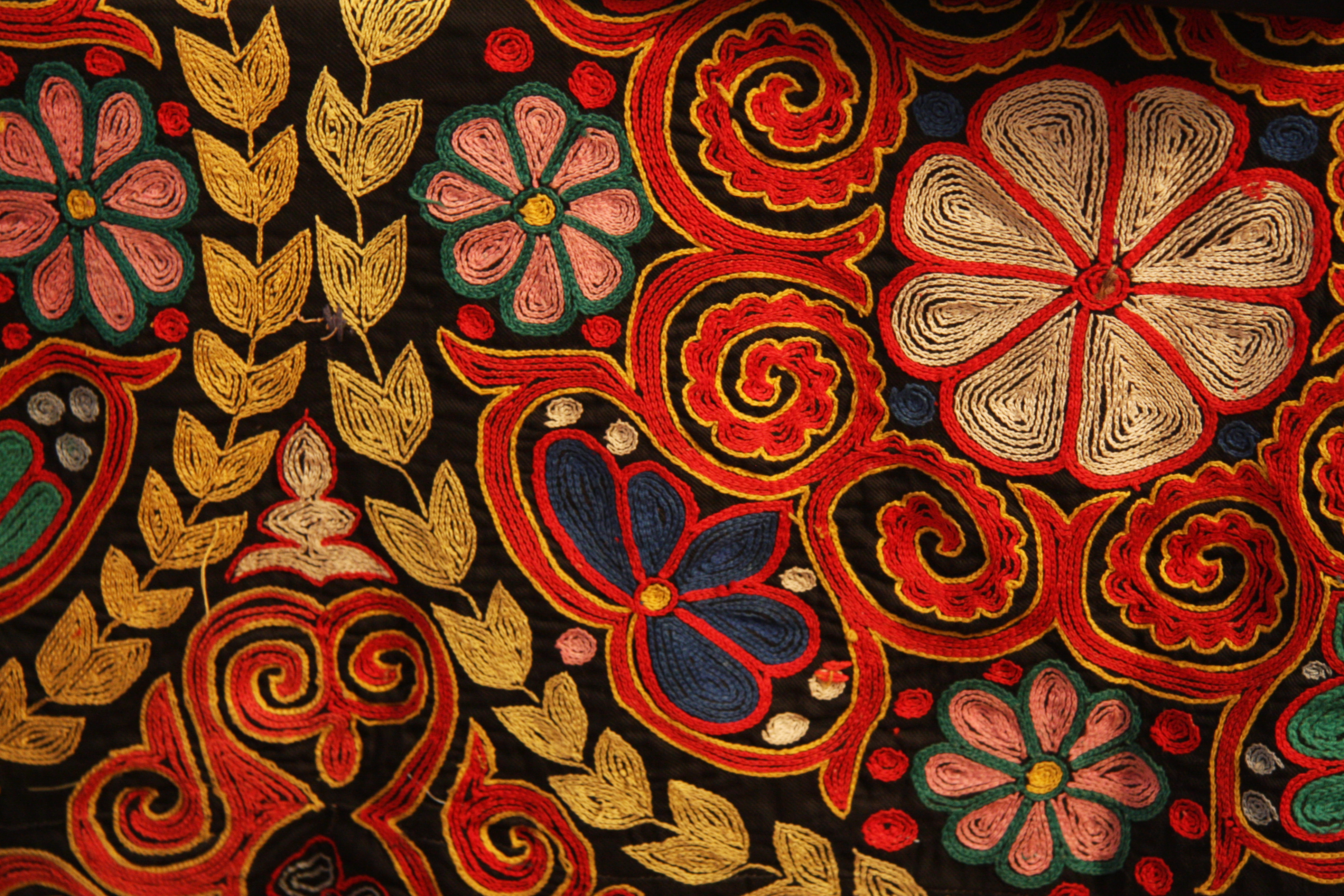 A traditional Kazakh rug I bought when I lived in Mongolia.